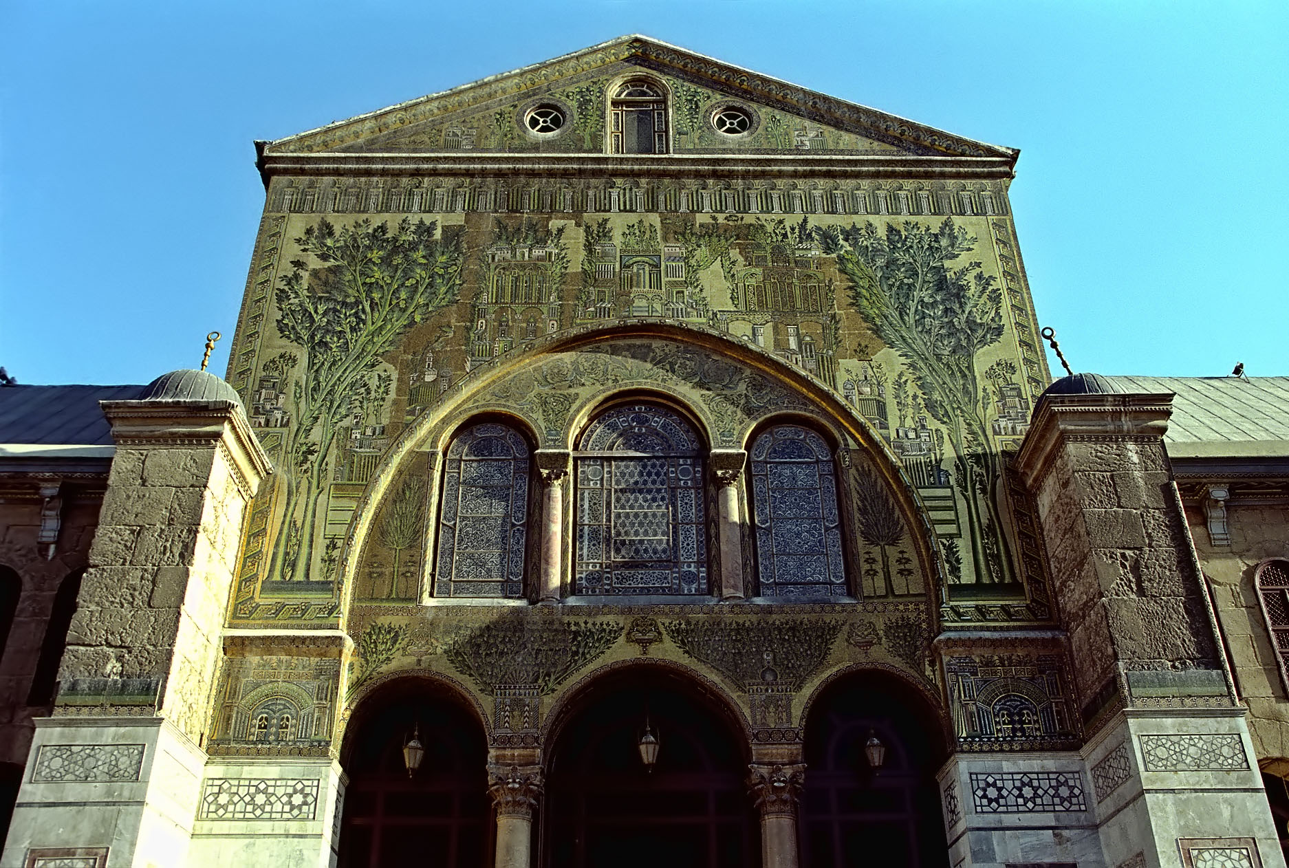 The Umayyad Mosque - mosaic of Eagle Dome, Damascus